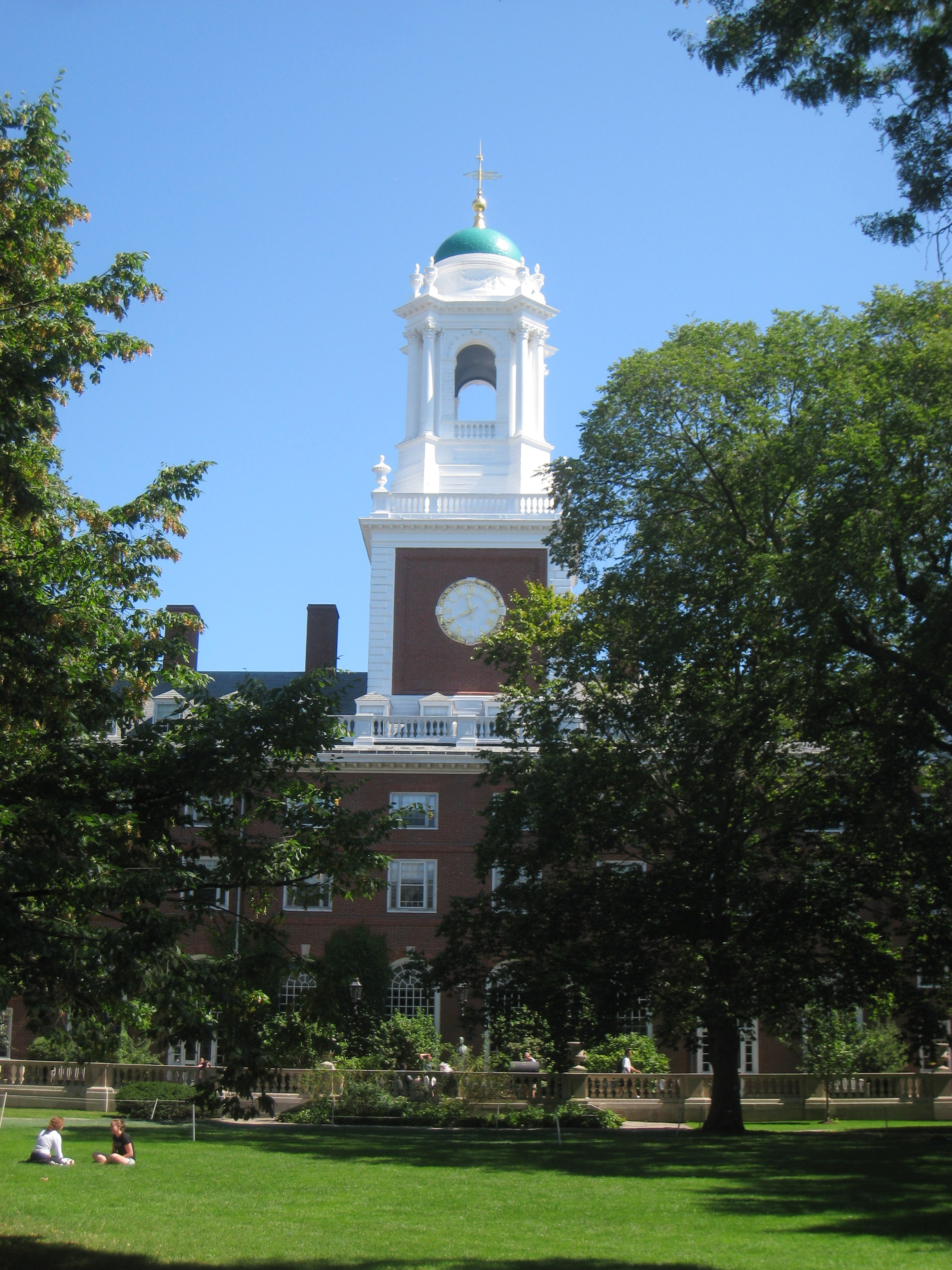 Eliot House, Harvard University, Cambridge, Massachusetts, USA.